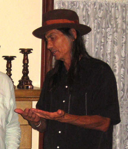 Richard Ray Whitman (Yuchi-Muscogee Creek) artist and actor, Oklahoma City, OK